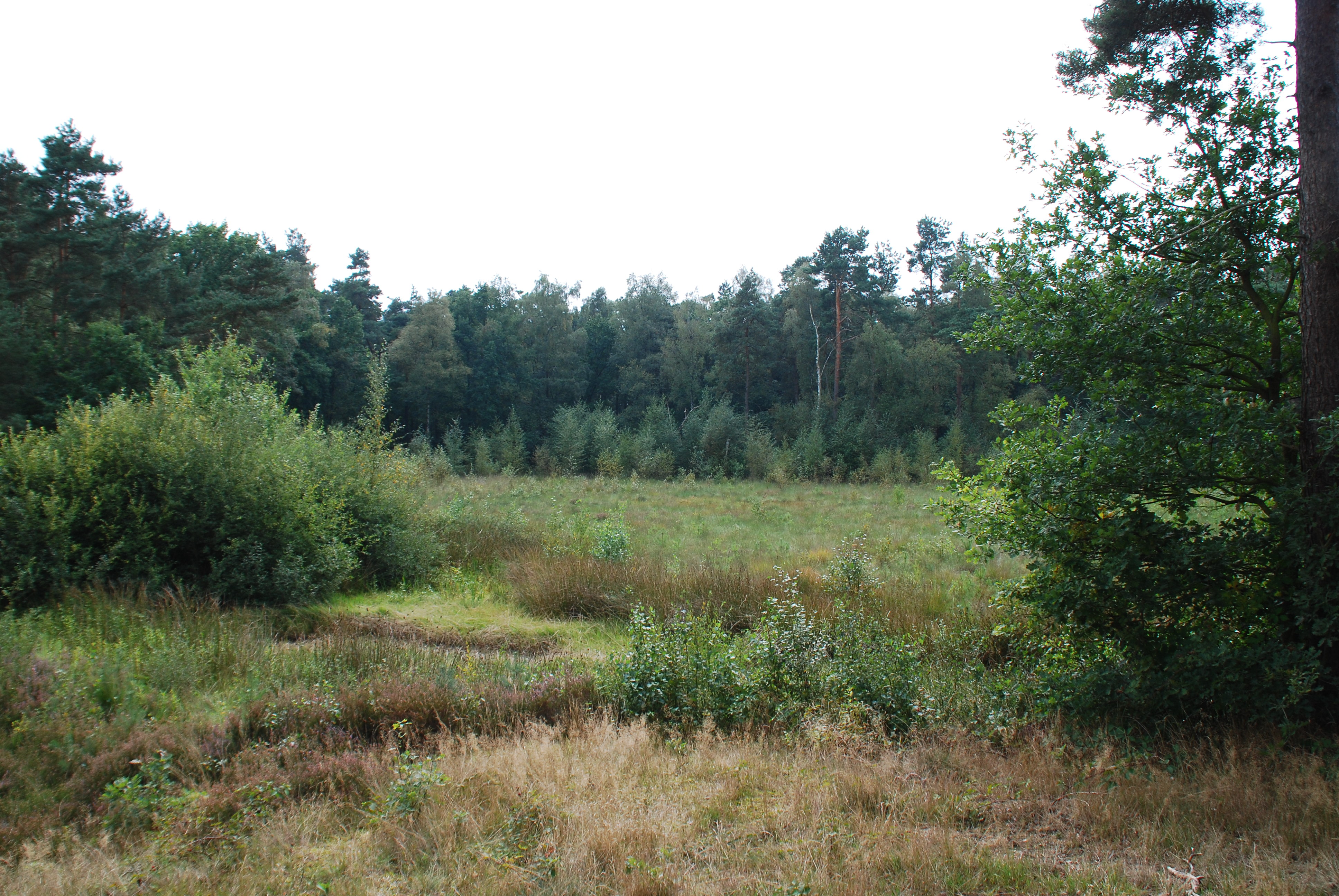 The small bog „Koffituten“ in the nature reserve (Naturschutzgebiet/NSG) of the same name in Hopsten-Schale, Kreis Steinfurt, North Rhine-Westphalia, Germany.